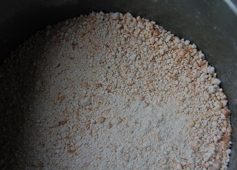 The starch of sago palm (Metroxylon sagu); Simeulue, IndonesiaBahasa Indonesia: Pati sagu, siap dimasak; Teupah Selatan, Simeulue